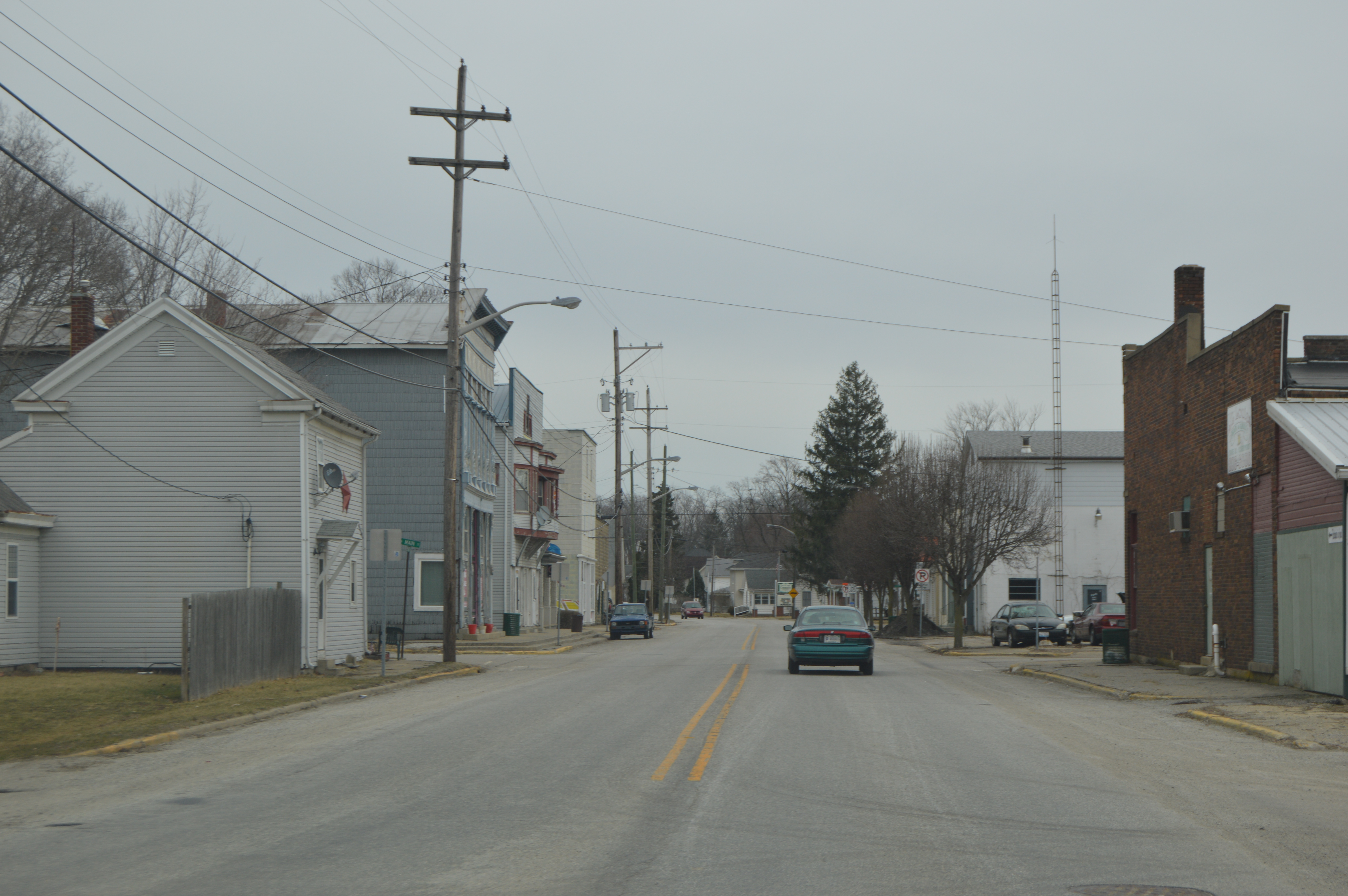 Entering the town of Greens Fork, Indiana, United States, from the west on State Road 38.